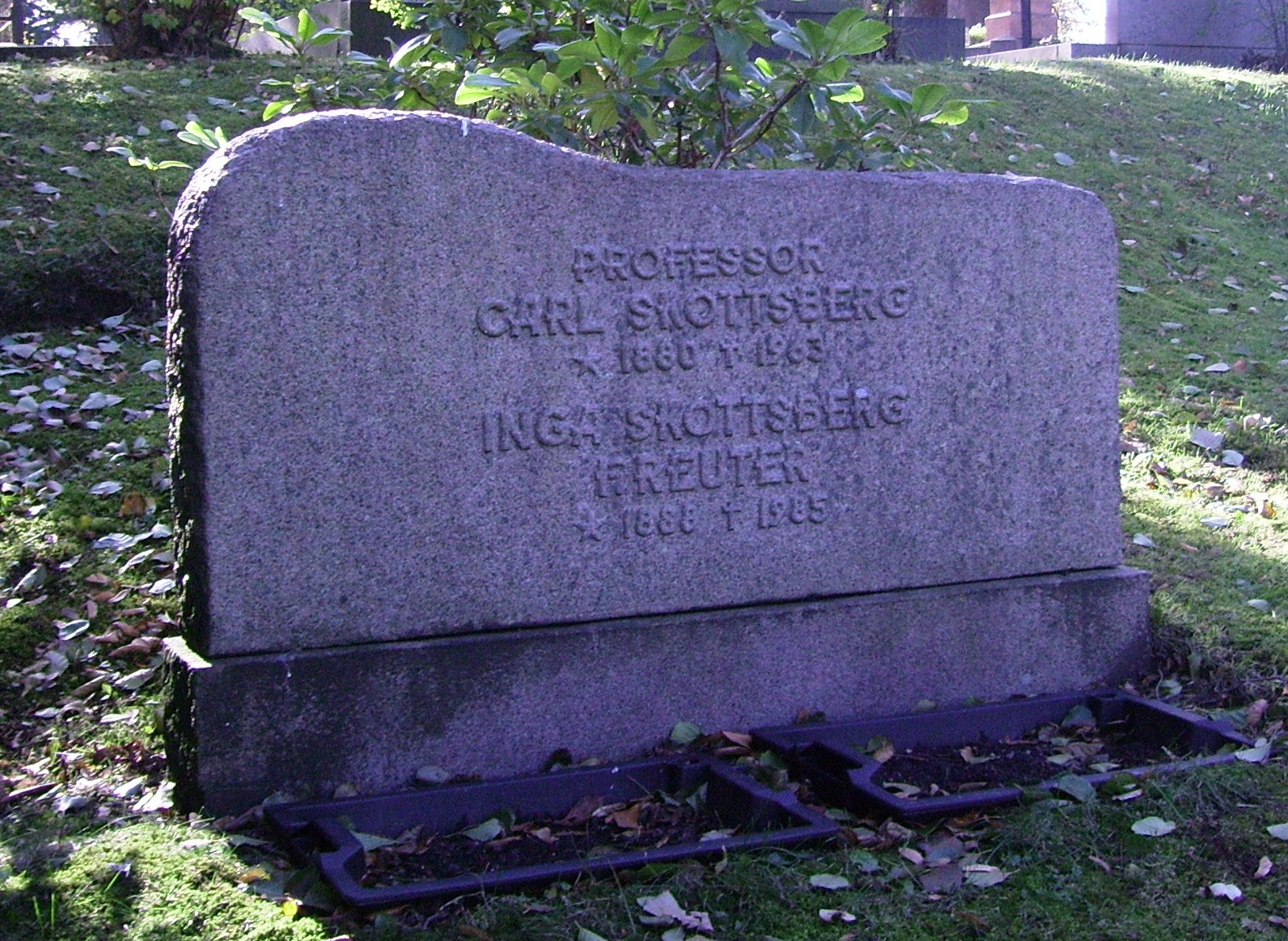 Picture of Carl Skottsberg's grave at Östra kyrkogården in Göteborg